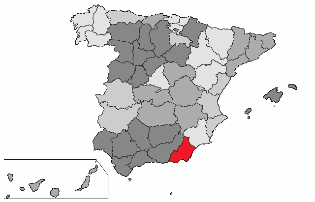 Province of Almería Based in: Image:ProvPont.jpg Source: Designed by Leoplus. Original picture, designed by Sobreira.